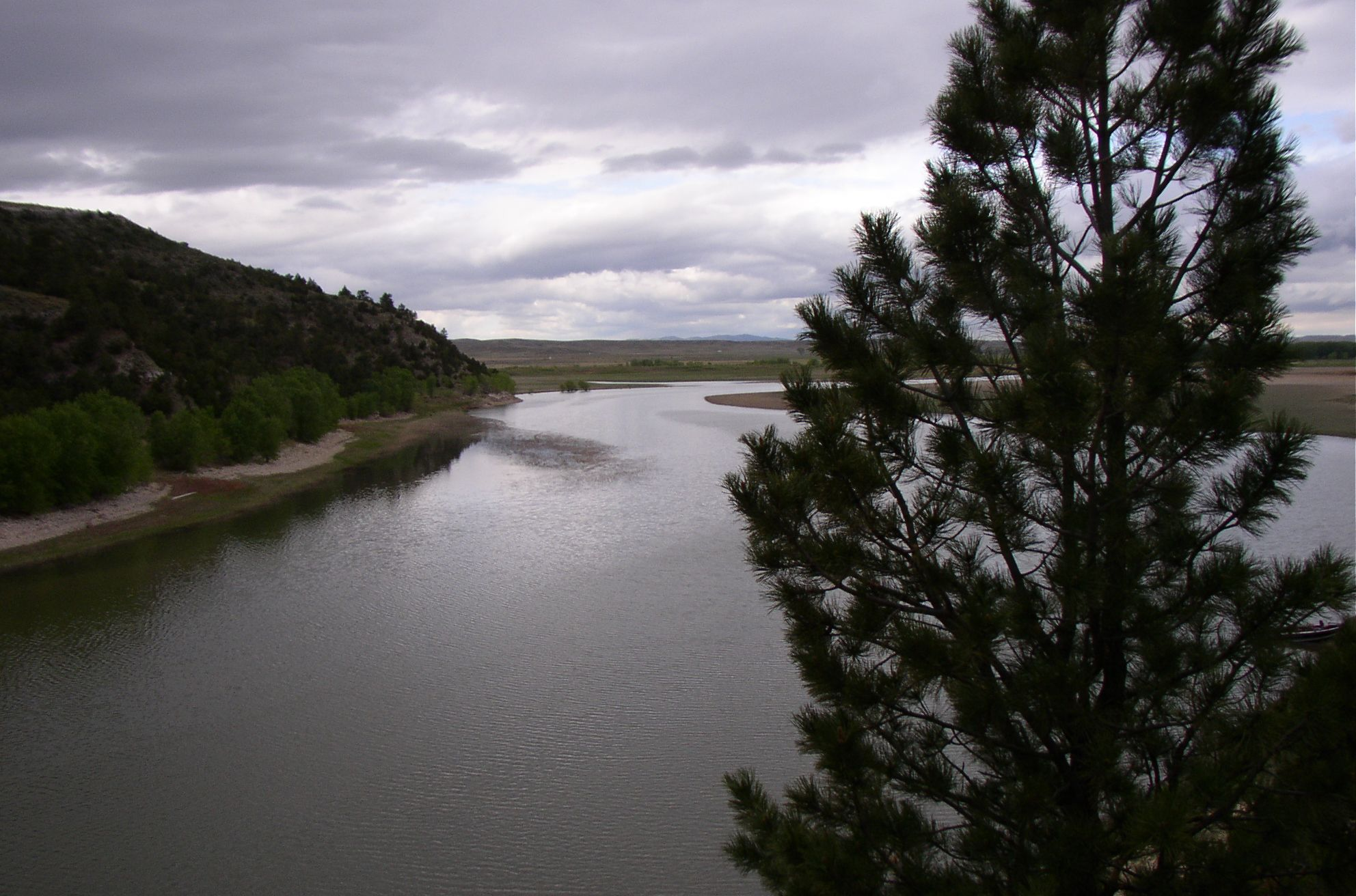 Glendo State Park and North Platte River view to Interstate 25 in the background